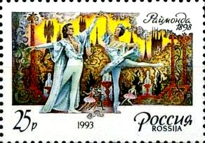 Stamp of Russia, Раймонда, 1993, 25 r.